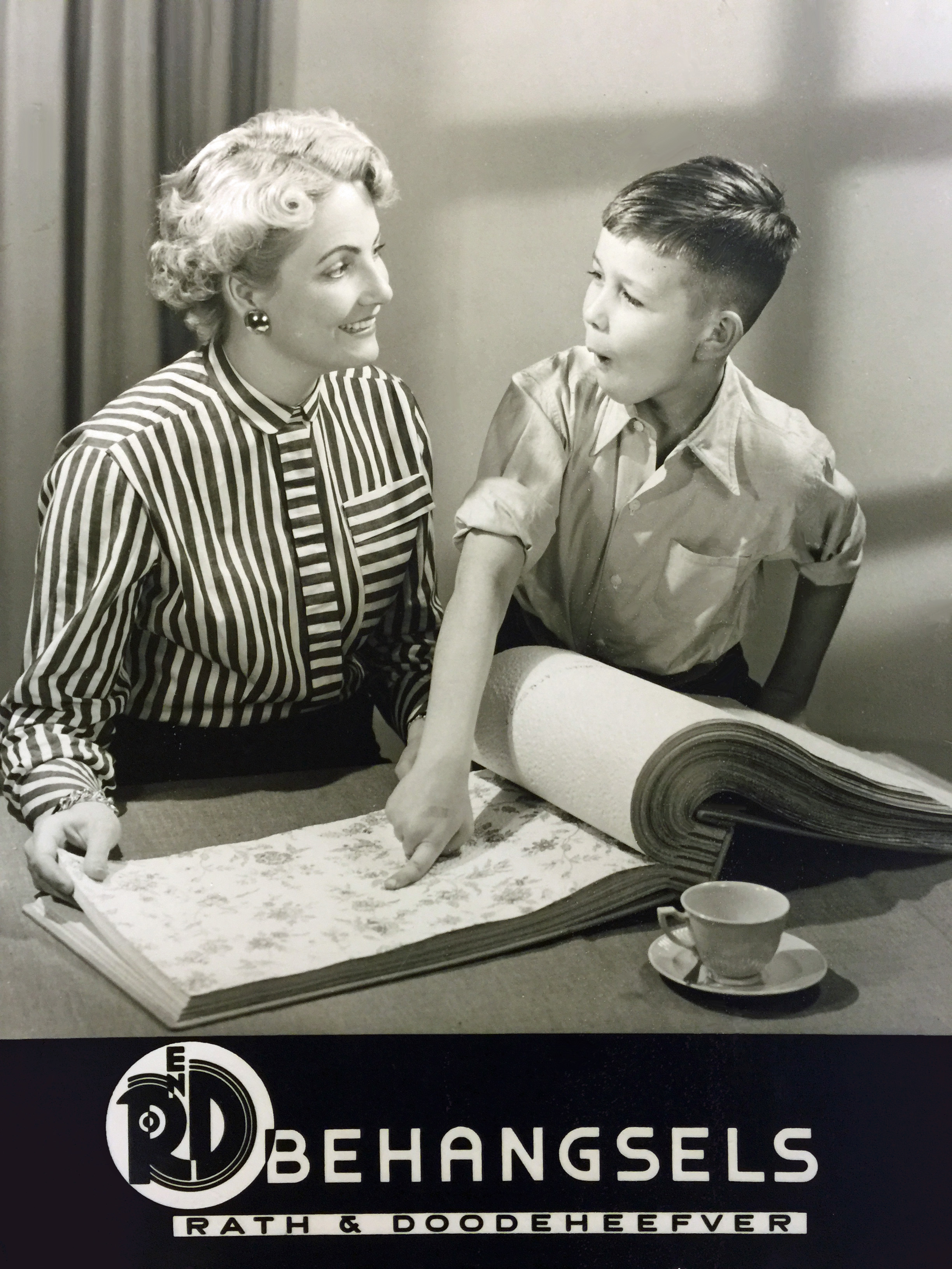 Brochure of Dutch wallpaper manufacturer N.V. Rath & Doodeheefver